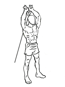 an exercise of triceps